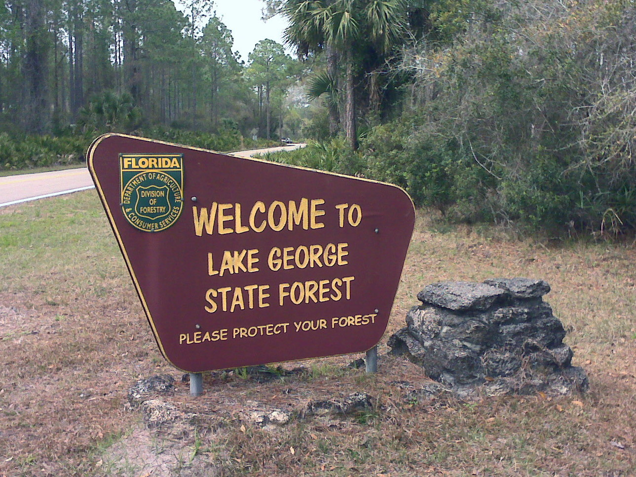 Welcome sign to the Lake George State Forest in Volusia County, Florida, USA. The sign was erected by the Florida Department of Agriculture, Division of Forestry along Riley Pridgeon Road near the unincorporated community of Volusia.